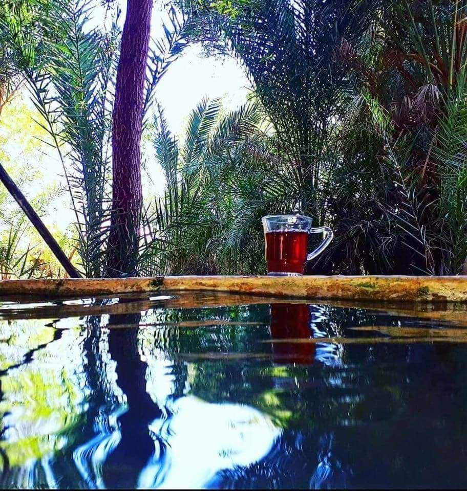 One of biyo kulule swimming pools